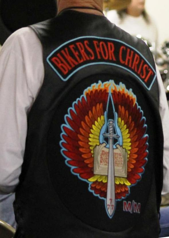 Bikers for Christ Motorcycle Ministry colors, cropped from original Flickr photograph.